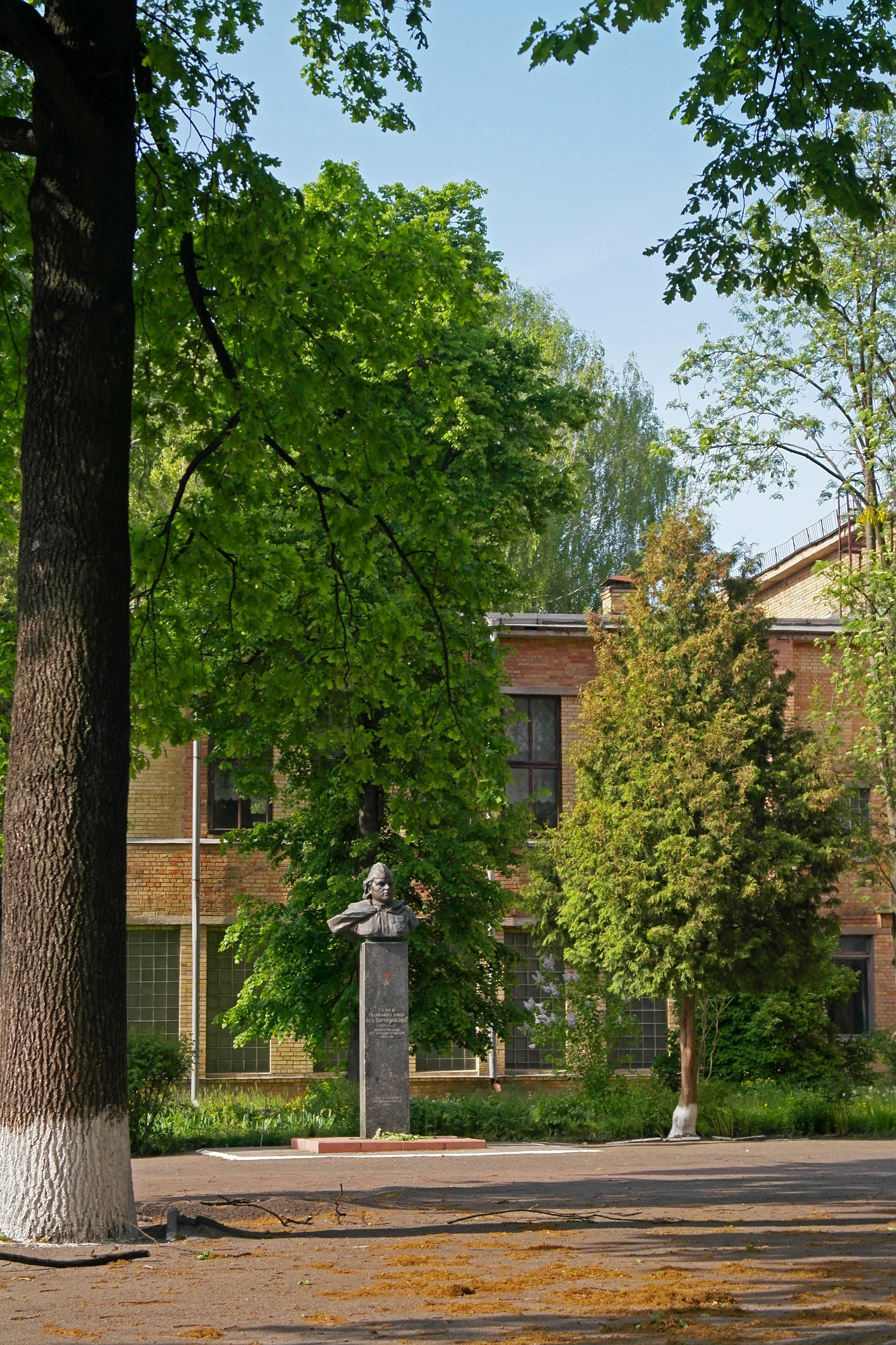 Бюст Марії Боровиченко